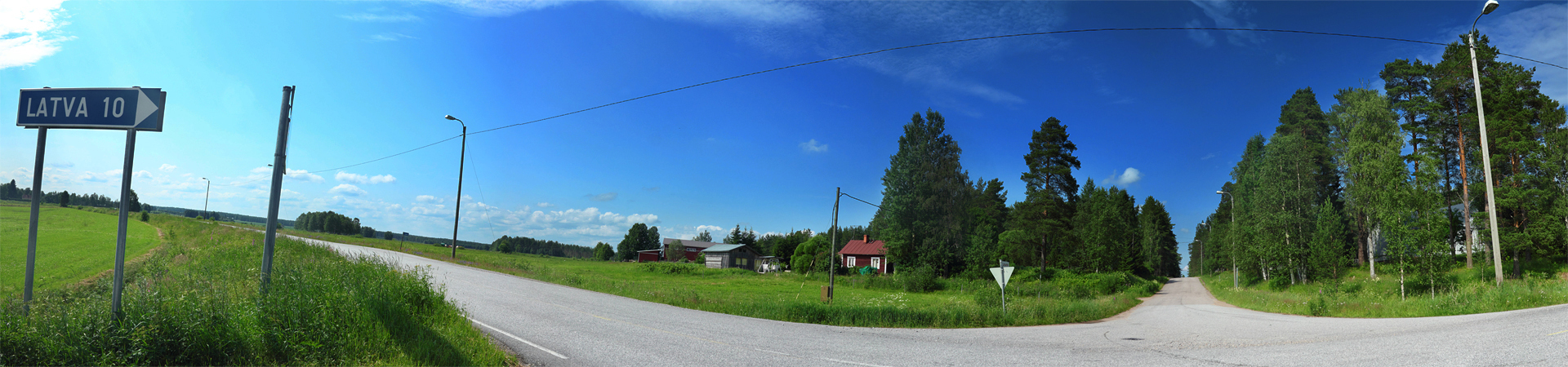 Panoramic photo taken of a small village called Laakkola, which is a part of the municipality of Siikalatva, Finland.